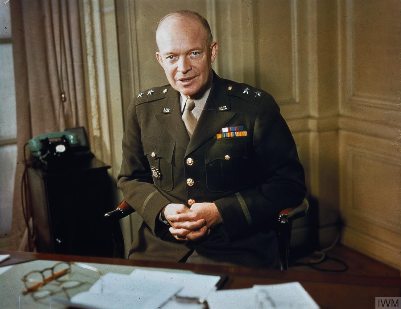 Major General Dwight Eisenhower, 1942 The Commander of American Forces in the European Theatre, Major General Dwight Eisenhower, at his desk.